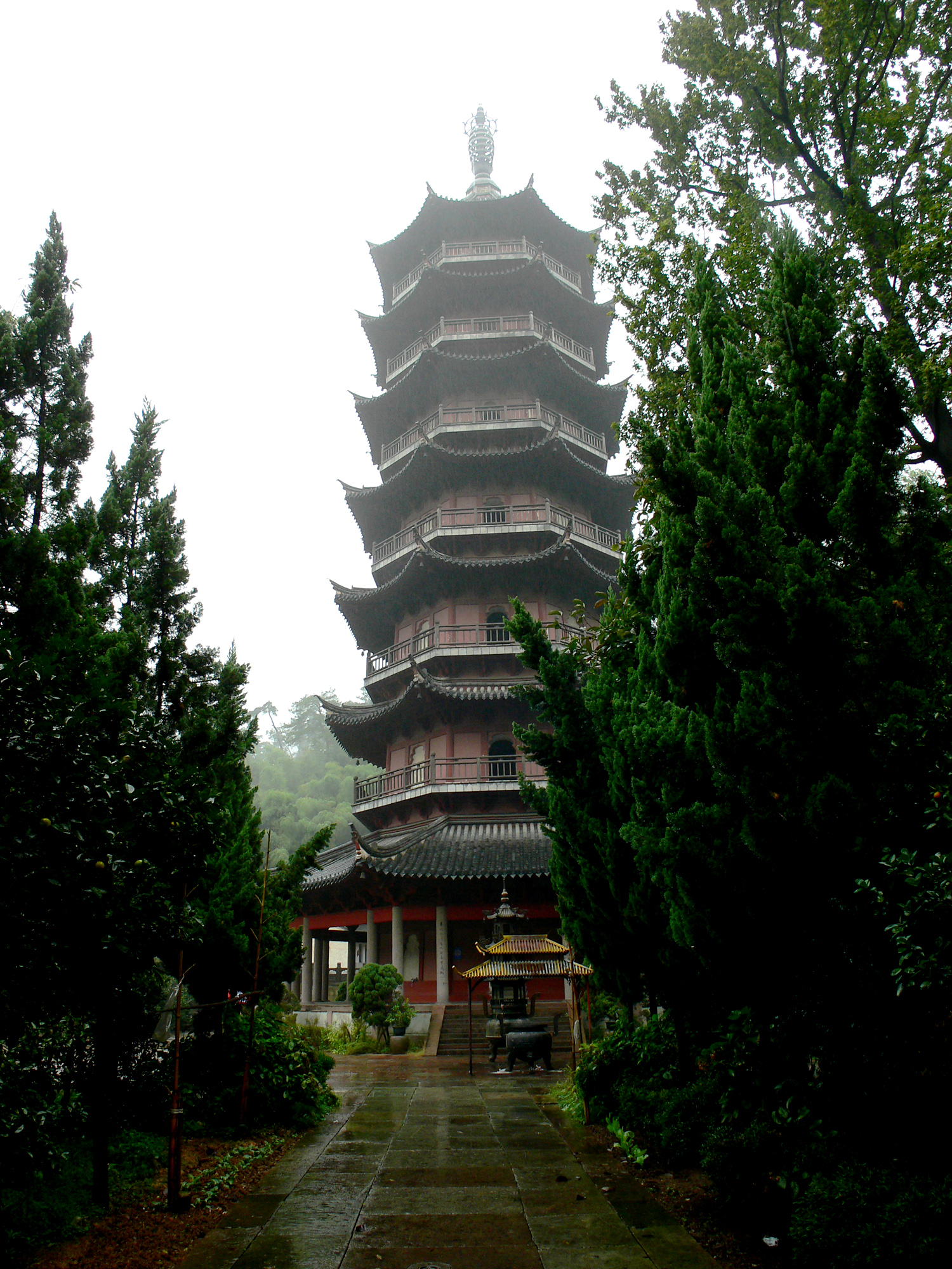 Ningbo Ashoka Temple Tower